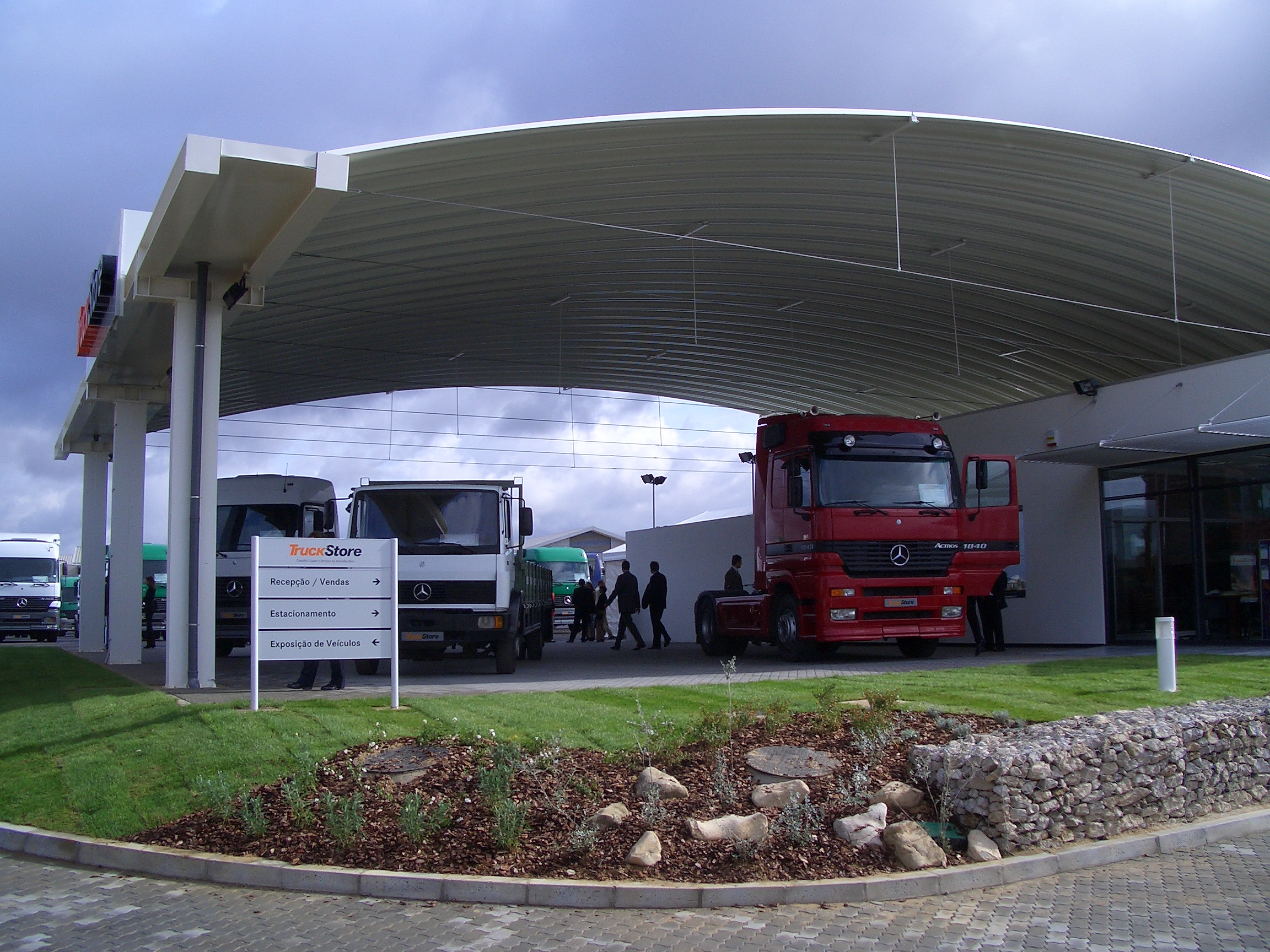 TruckStoreAbrunheira